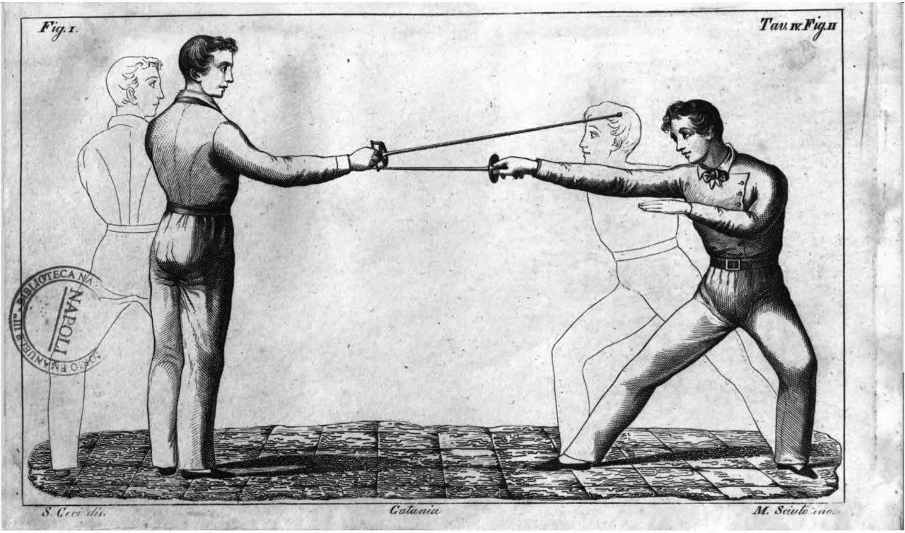 Демонстрация Неаполитанского фехтования из трактата "La scienza della scherma esposta da Blasco Florio.Tipografia del R. ospizio di beneficienza", 1844